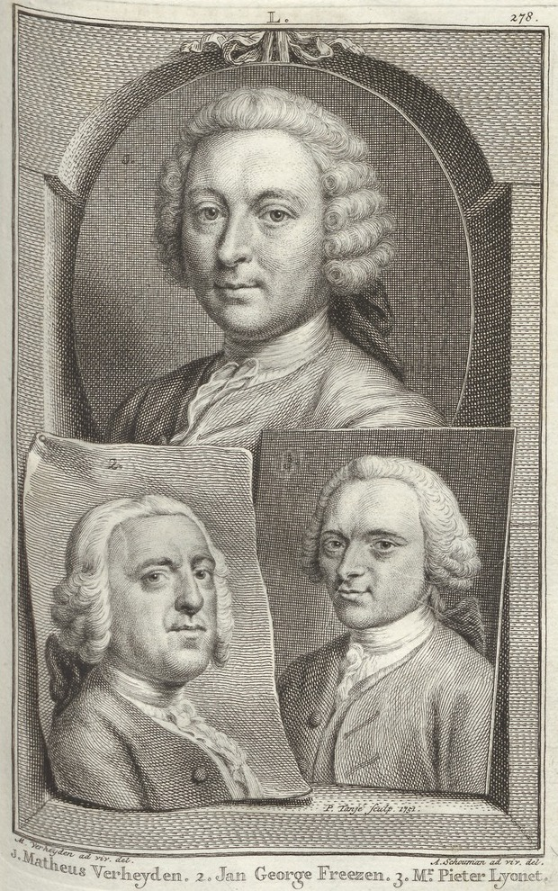 Matheus Verheyden, Jan George Freezen, and Mr Pieter Lyonet